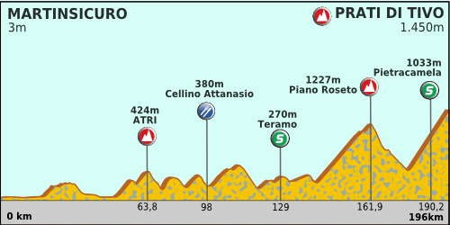 Tirreno Adreatico 2012 stage 5